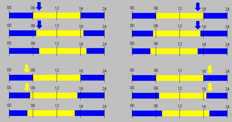 Figure displaying how exposure to various zeitgebers might entrain the circadian rhythm